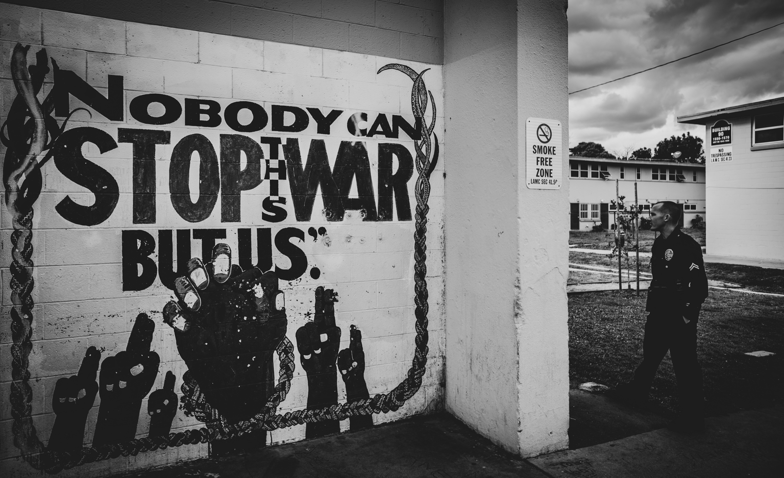 A mural stating "Nobody Can Stop the War But Us" in Nickerson Gardens, Watts, Los Angeles.